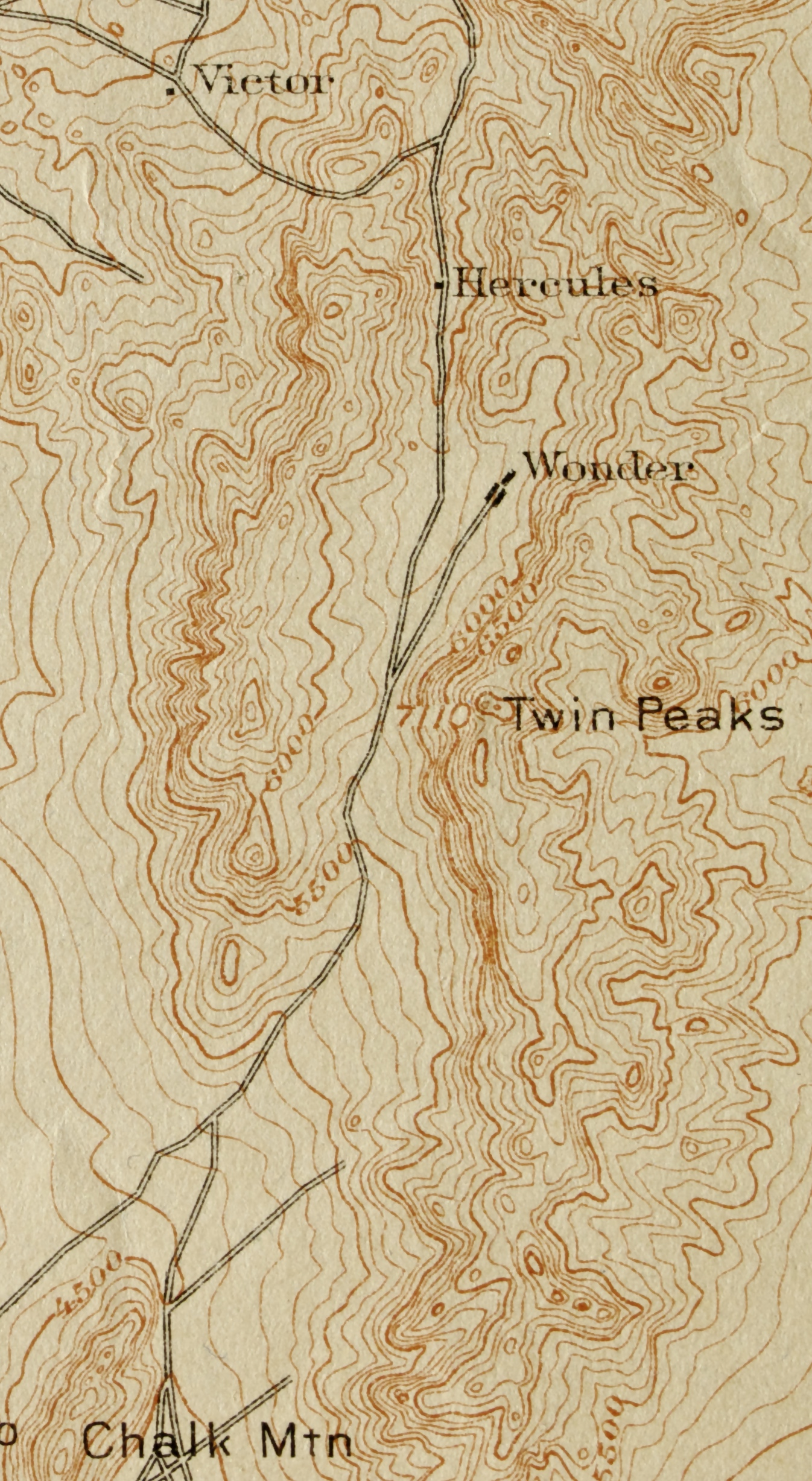 Detail from 1910 map showing the town of Wonder and immediate area